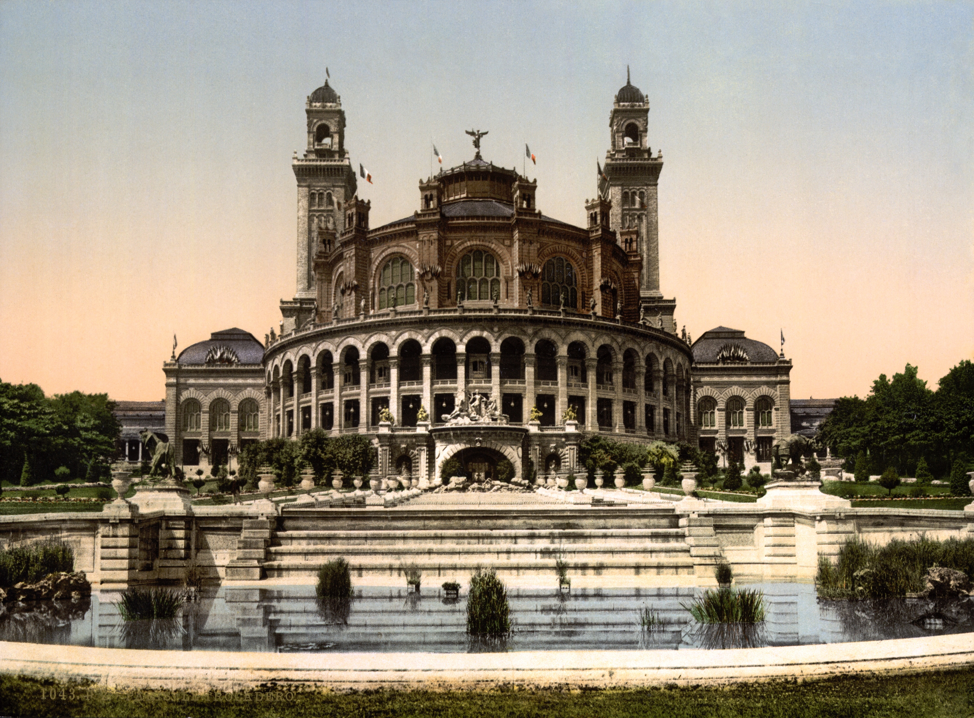 The Palais du Trocadéro in Paris, built for the 1878 World’s Fair, around 1867.